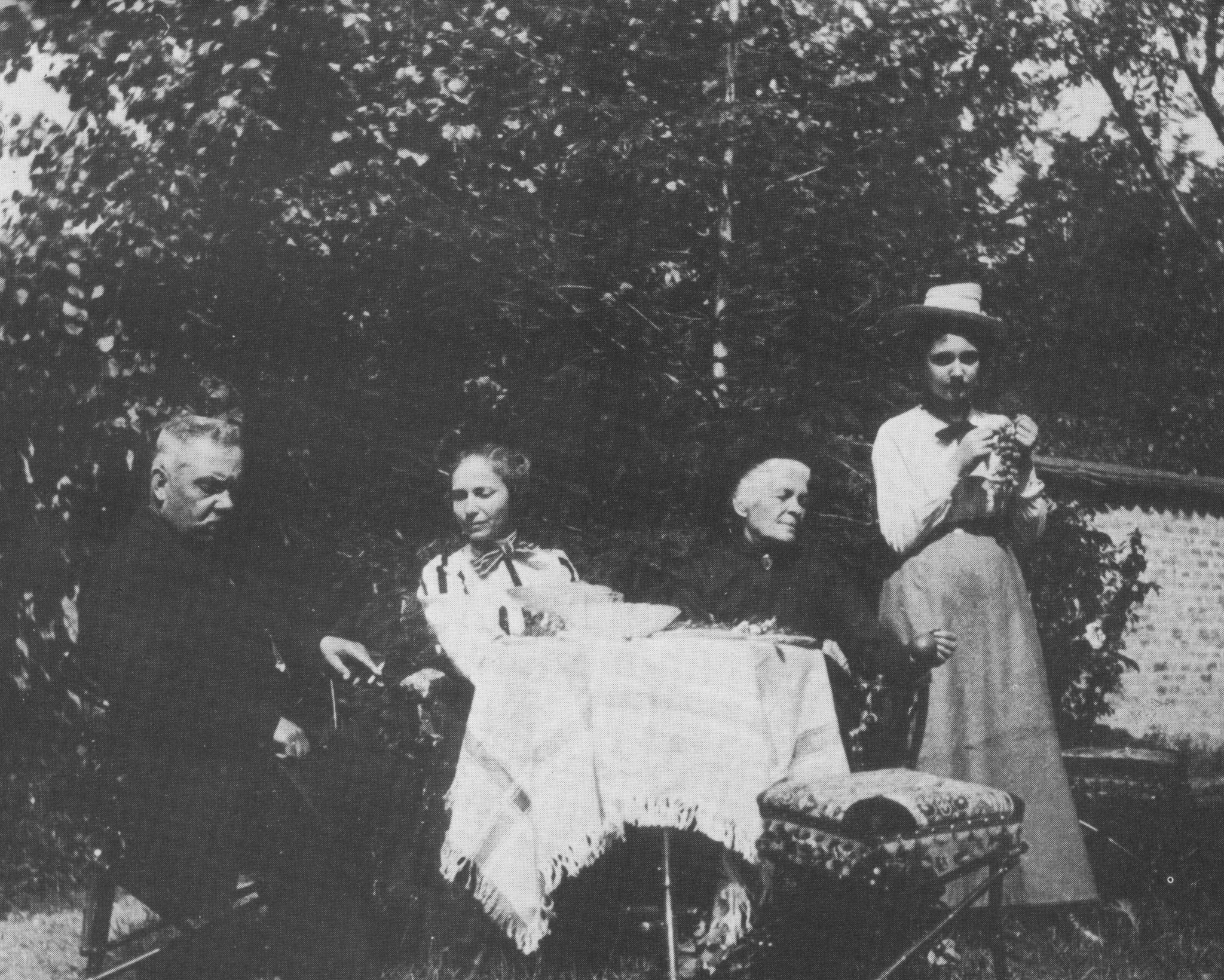 Ekaterina Karavelova with her daughter (Lora)and Natalia Karavelova, wife of Bulgarian writer and revolutionary Lyuben Karavelov (1834/35 - 1879) - Belgrade, Serbia - 1901